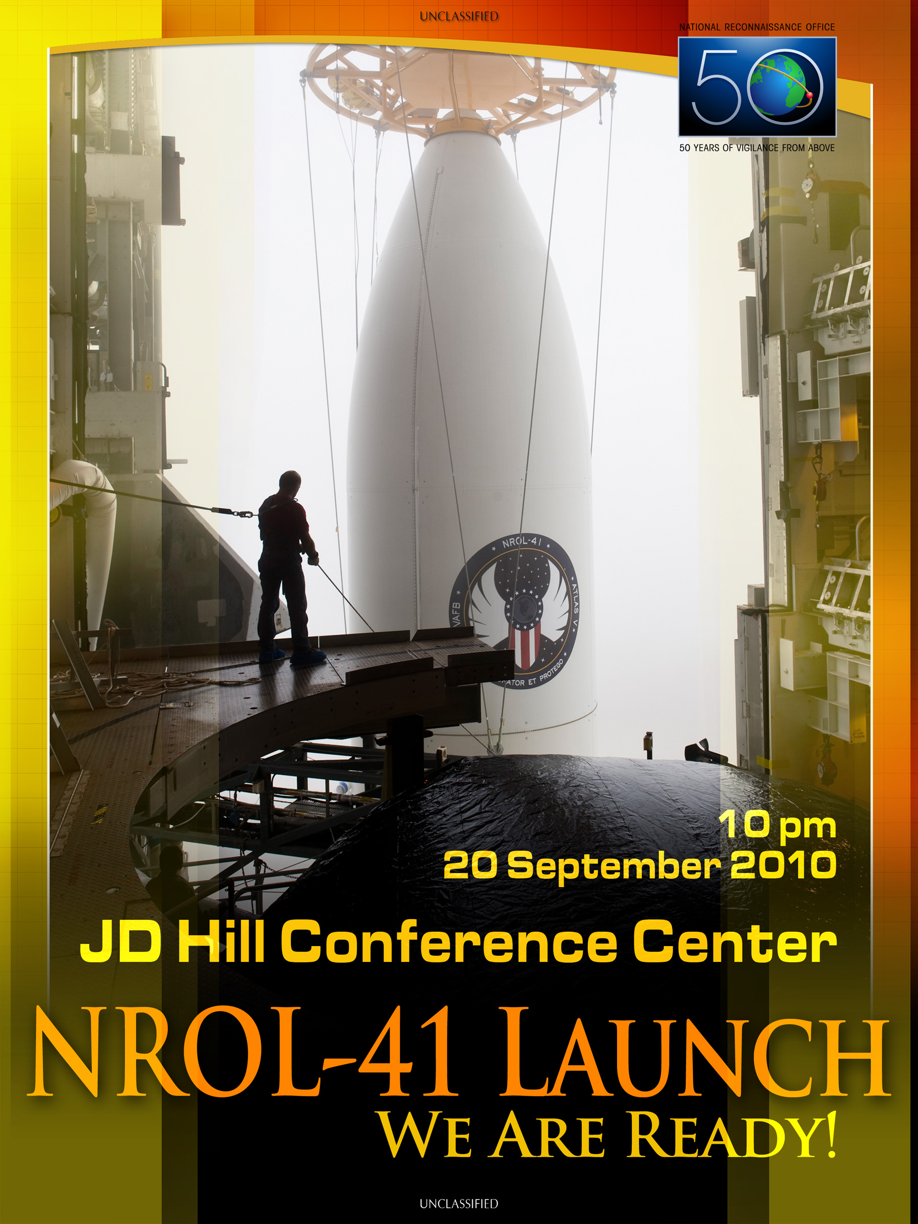 Close-up of ATLAS 501 payload fairing housing NROL-41 satellite (poster commemorating 50yr of NRO), image link